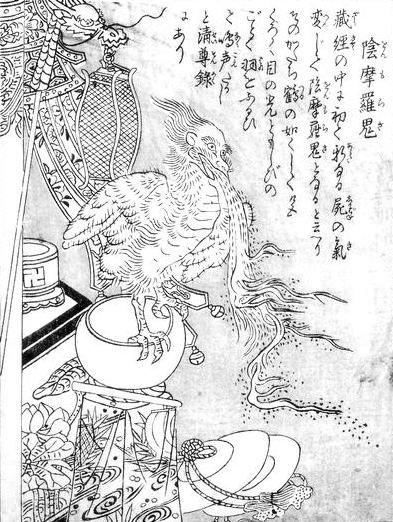 Onmoraki (陰摩羅鬼, a bird-demon created from the spirits of freshly-dead corpses) from the Konjaku Gazu Zoku Hyakki (今昔画図続百鬼)